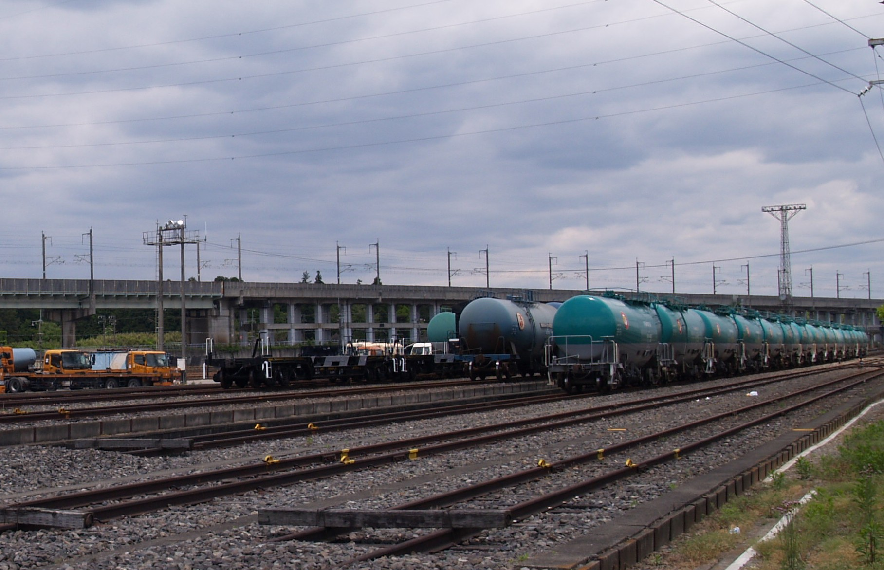 Tank cars at Utsunomiya Freight Terminal